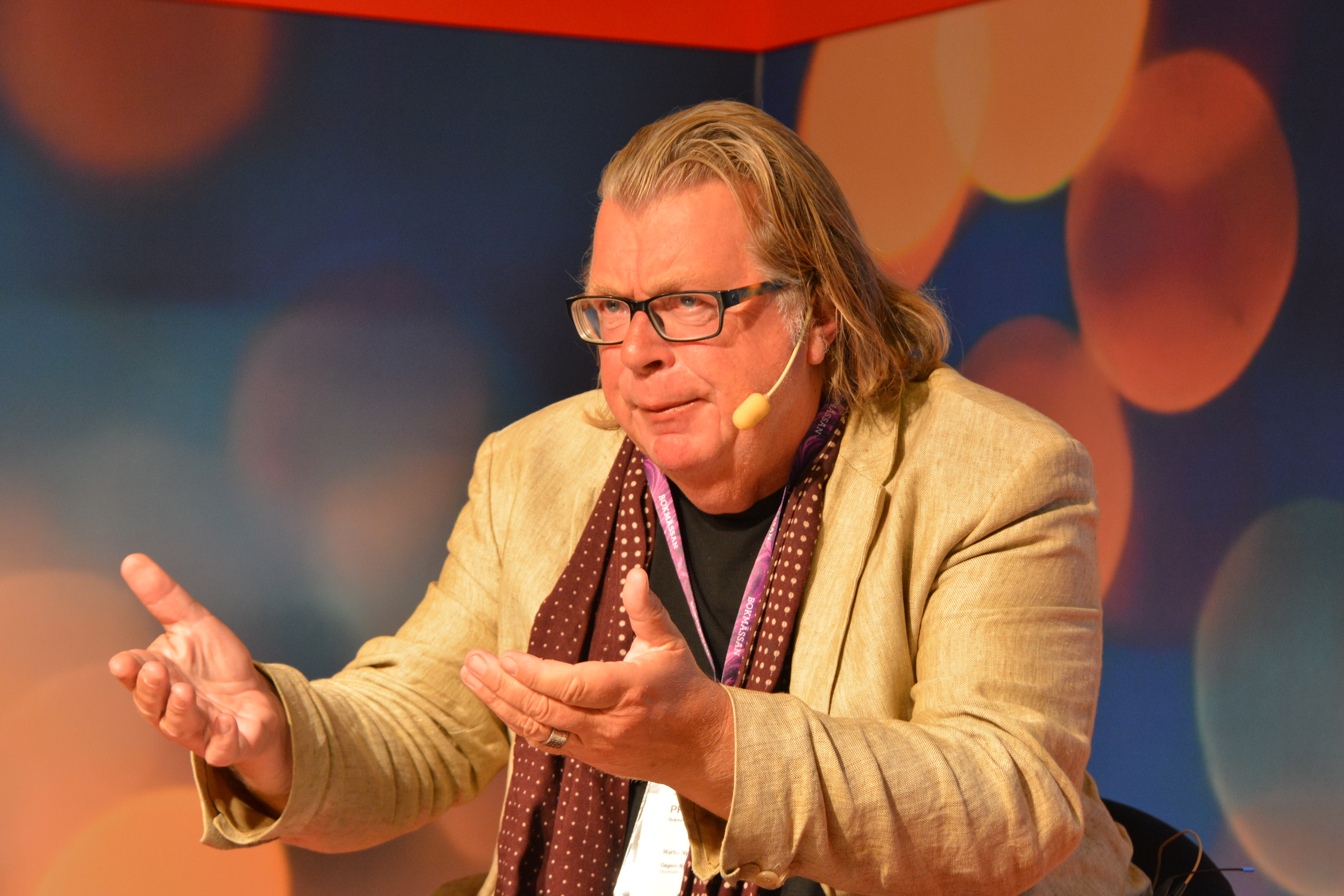 Martin Nyström, Bokmässan i Göteborg 2016